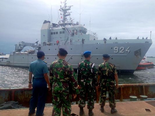 Indonesian Navy ocean-going tugboat KRI Leuser (924)